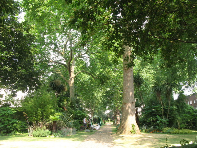 Hyde Park Square, W2